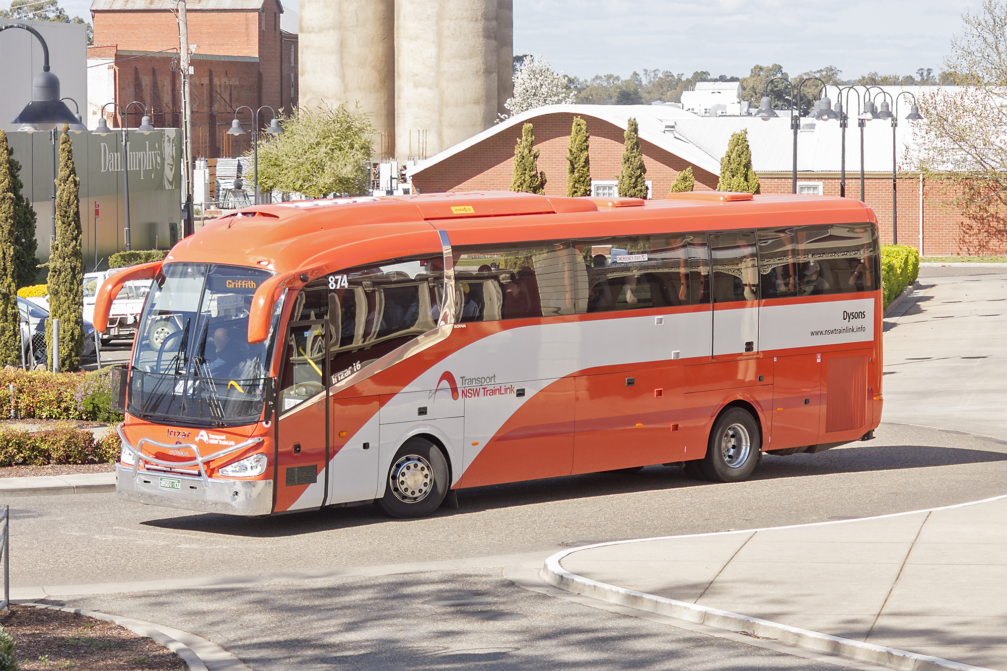 NSW TrainLink Wagga Wagga to Griffith coach service operated by Dysons (BS01 CU), in NSW TrainLink livery, Irizar i6 bodied Scania K310IB at Wagga Wagga Railway Station.